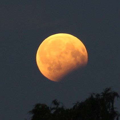 Partial Lunar eclipse on 7th August 2017 at 21:57 local time (UTC+3) as seen in northern Helsinki, Finland. - The partial eclipse started at 20:23 and the Moon rised in Helsinki at 21:20, when eclipse was its deepest. Sun went down in Helsinki at 21:35 and partial eclipse ended at 22:18. The moon was very low (about 5 degrees above horizon), no clouds on that side of the sky, temperature +13 °C.